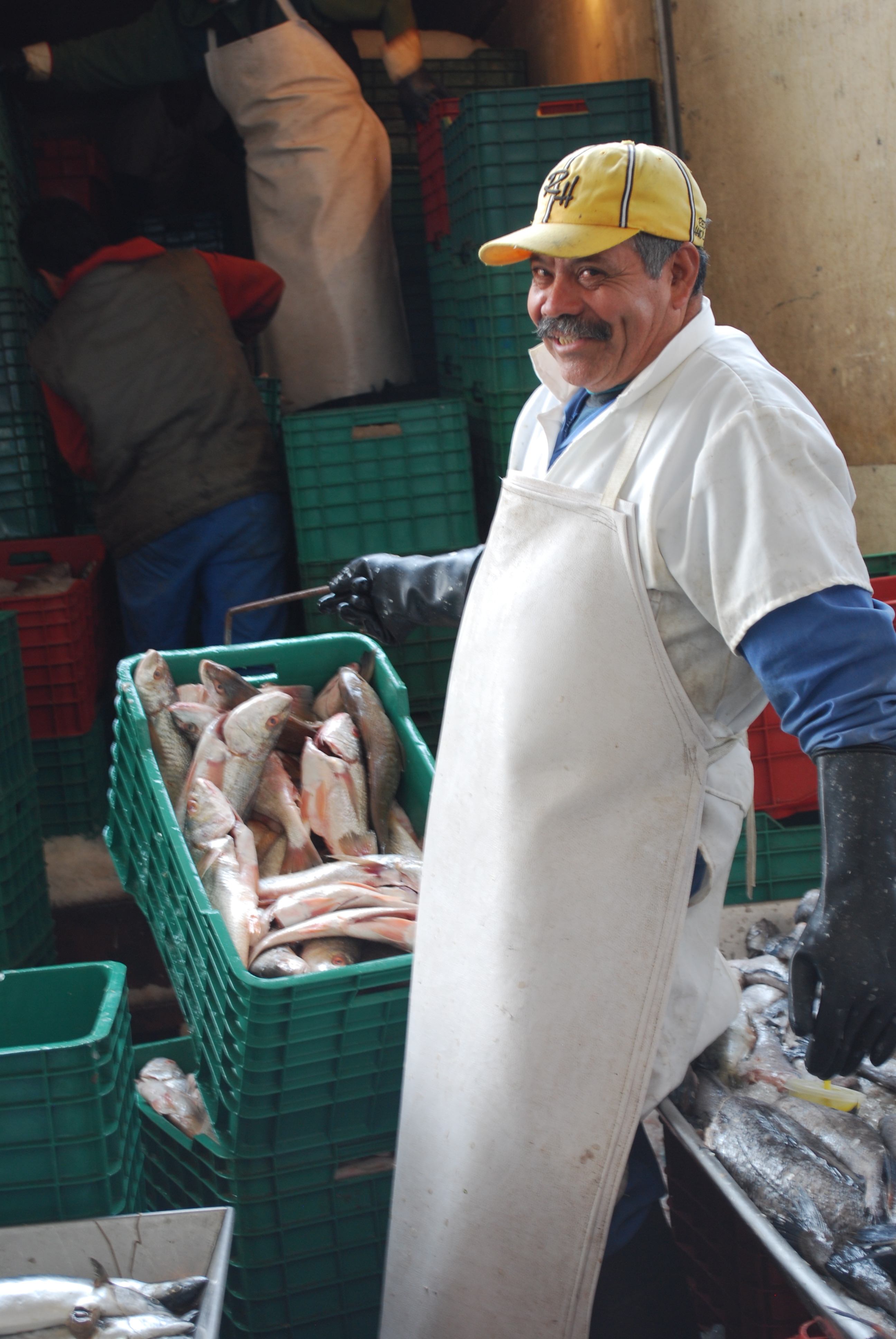 Fishmonger unloading truck at the La Nueva Viga fish market in Mexico City